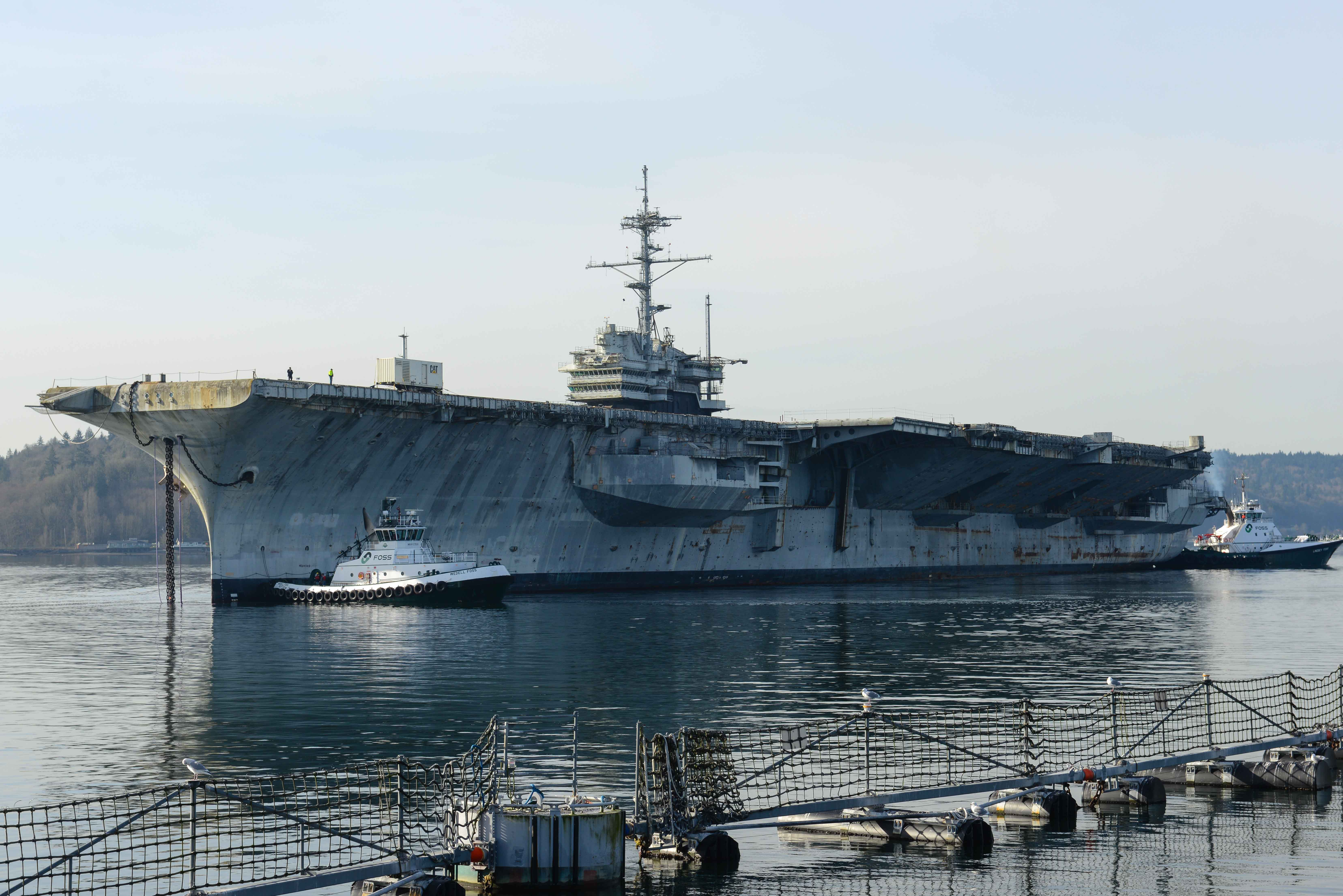 150305-N-XX566-019 Bremerton, Wash. (March 5, 2015) - Decommissioned Forrestal-class aircraft carrier USS Ranger (CV 61) is towed away from Naval Base Kitsap-Bremerton. The Ranger is being towed to Brownsville, Texas, for dismantling. (U.S. Navy Photo by Mass Communication Specialist Seaman Andre T. Richard/ Released)